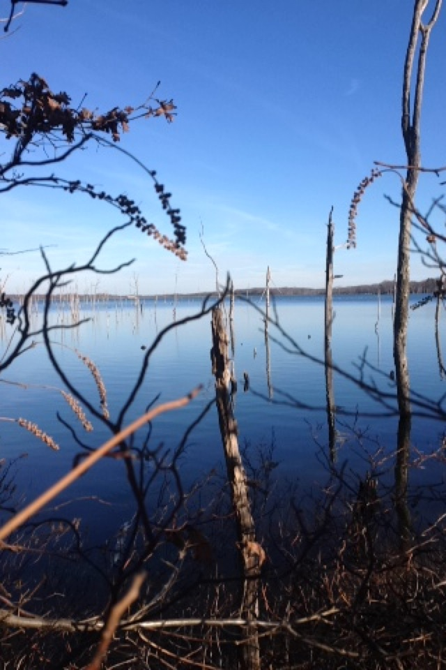 A picture taken during the winter of 2014.